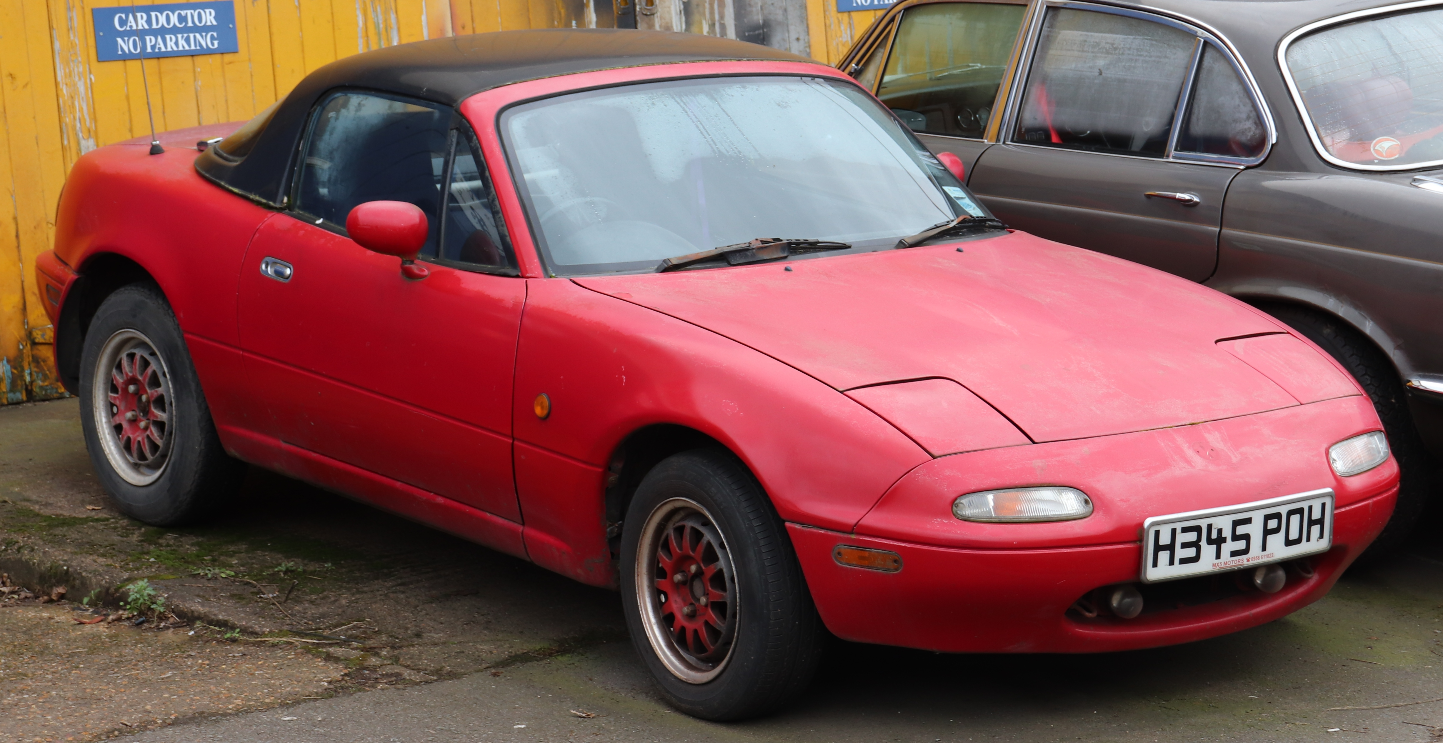 1990 Mazda MX-5 1.6 Taken in Leamington Spa